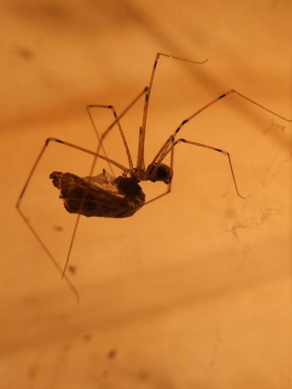 Holocnemus pluchei, Cellar spider